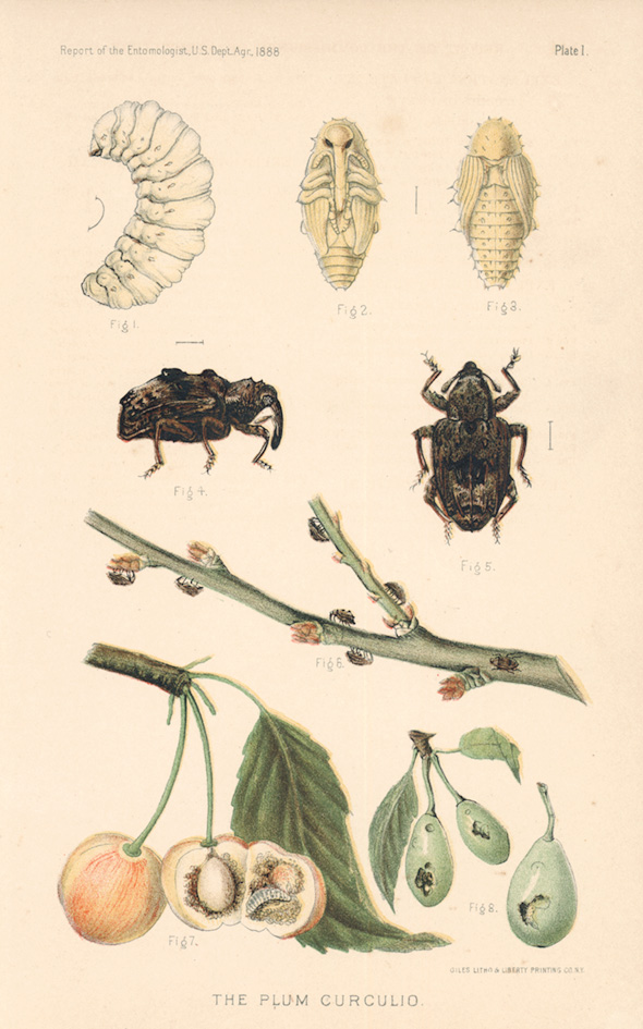 Plum curculio, Conotrachelus nenuphar (Herbst), a weevil which causes damage to plums, apples, peaches, pears and other fruits. It is widely distributed east of the Rocky Mountains, and is native to North America